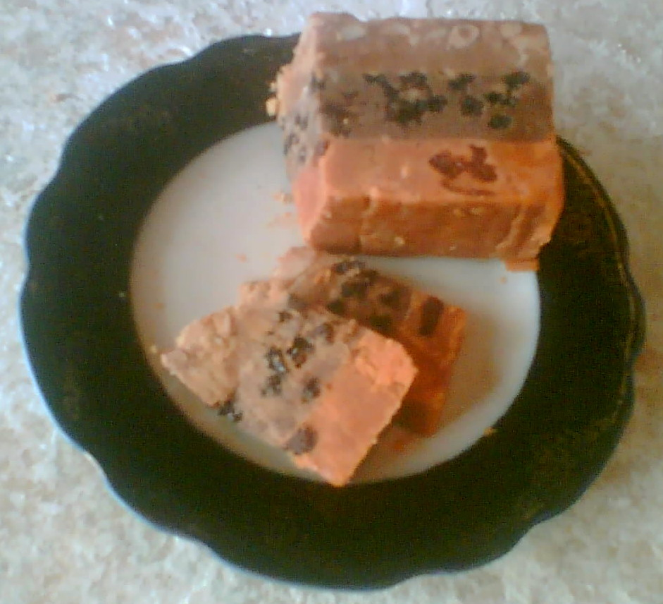 Central Asian Sherbet with peanuts, raisins and dried aprcots (NB!: it is not a frozen dessert)